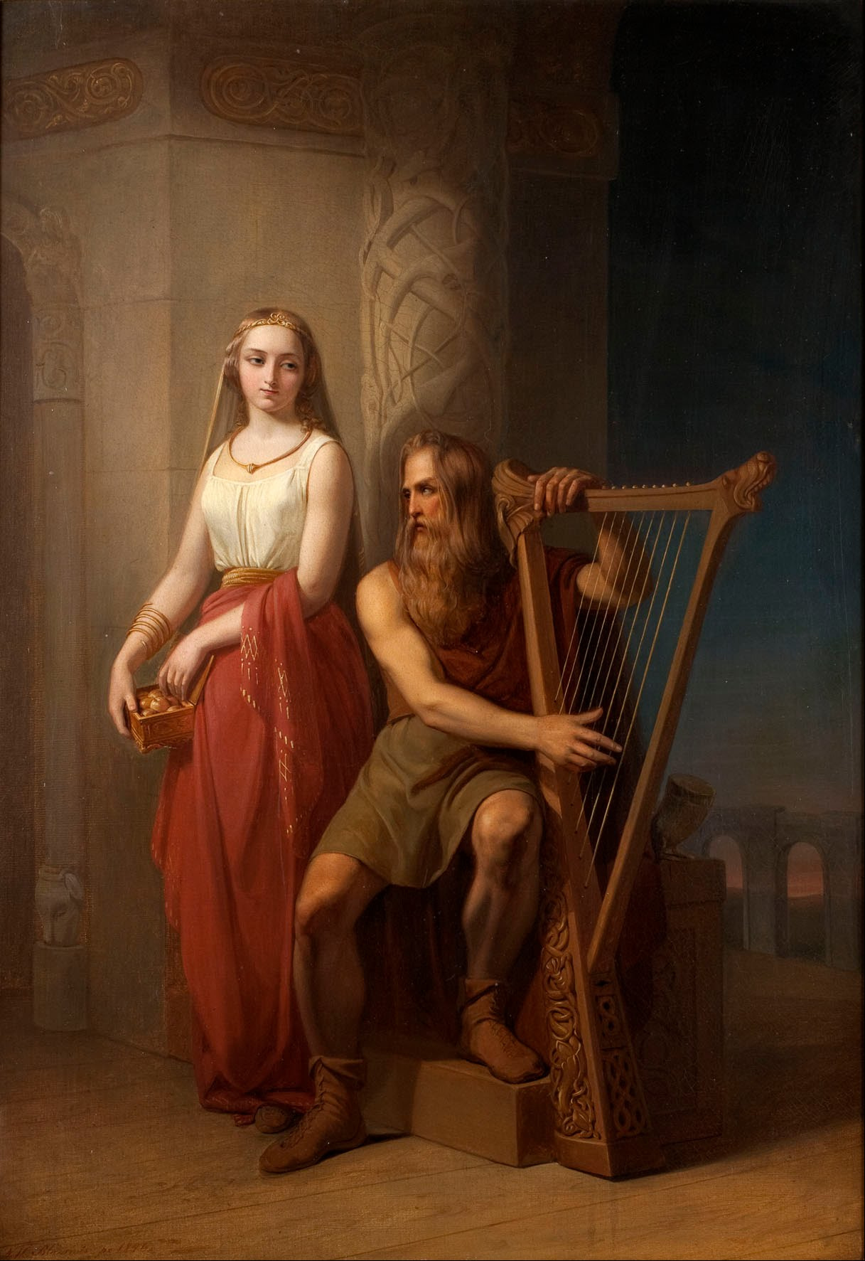 See Source